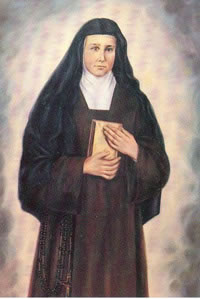 Portrait of Teresa Guasc, foundress of Carmelitas Teresas de San José congregation